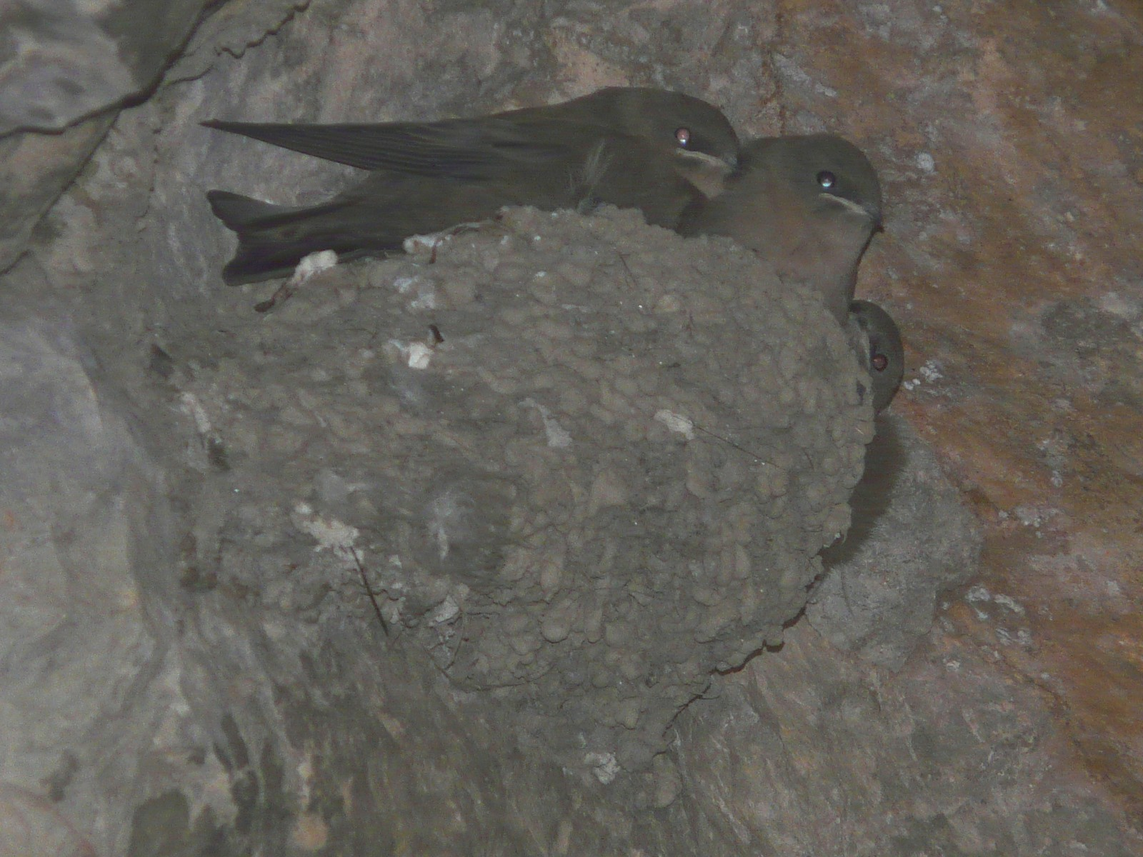 Three well-grown chicks in a nest in Asturias